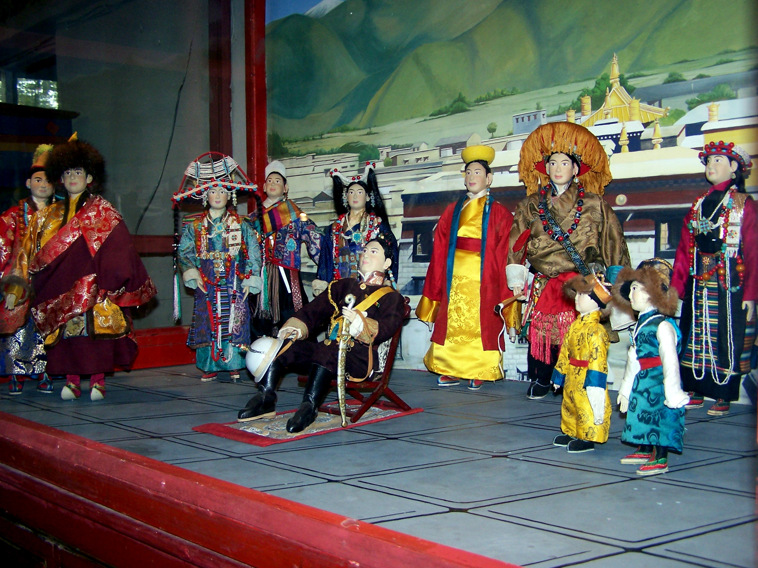 Scene from Tibet Royal courts, Losel Doll Museum, Norbulingka Institute, Dharamsala.